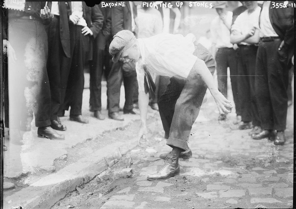 Title: Bayonne picking up stones Abstract/medium: 1 negative : glass ; 5 x 7 in. or smaller.